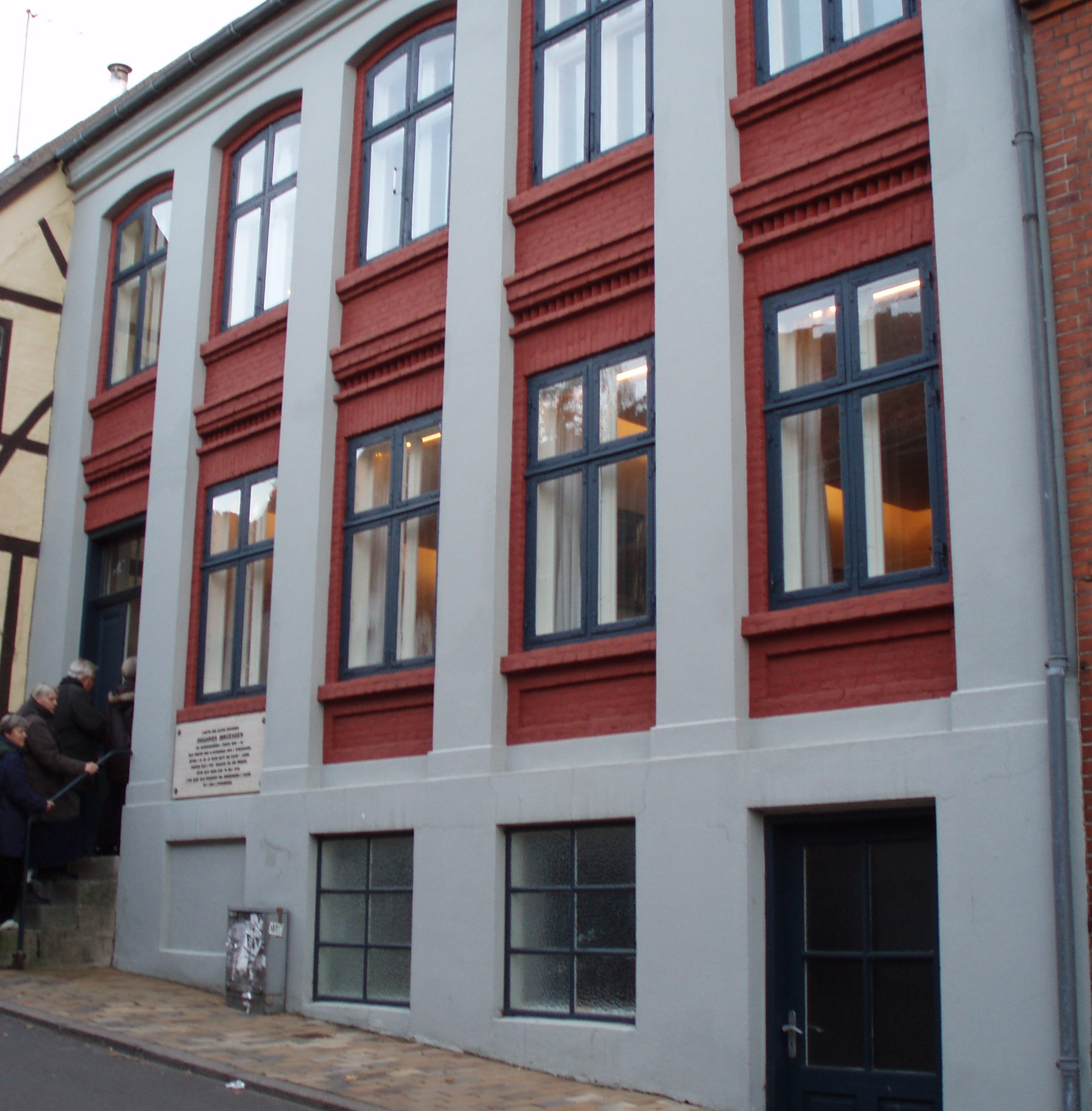 The home of the danish writher Johannes Jørgensen in Svendborg